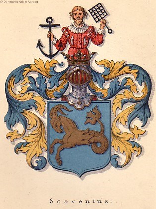 Coat of arms of the Scaveniys family. Danmarks Adels Aarbog 1907 (Anders Thiset d. 1917)